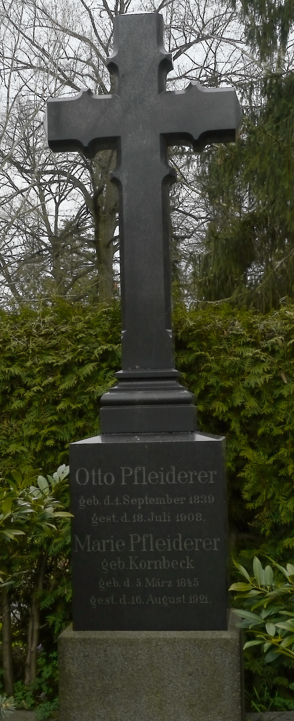 Tomb of Otto Pfleiderer in Berlin-Lankwitz